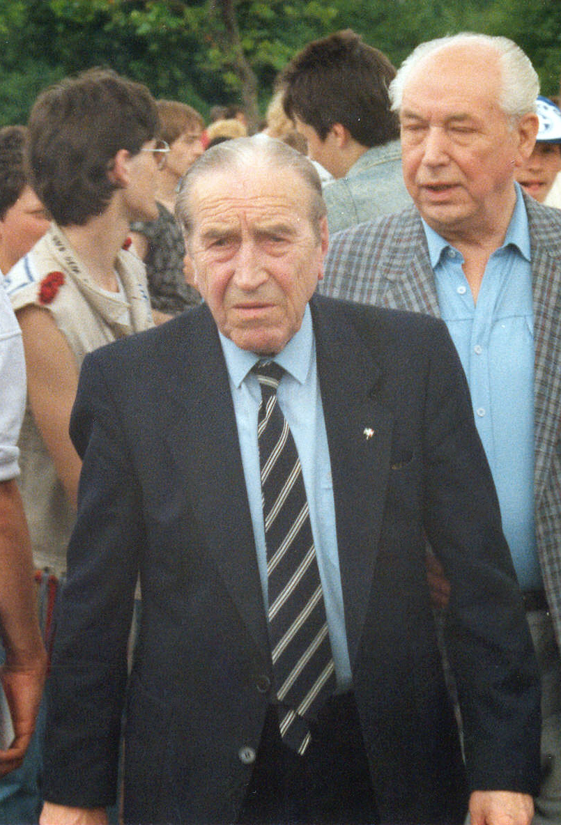 Ernst Kuzorra 1987